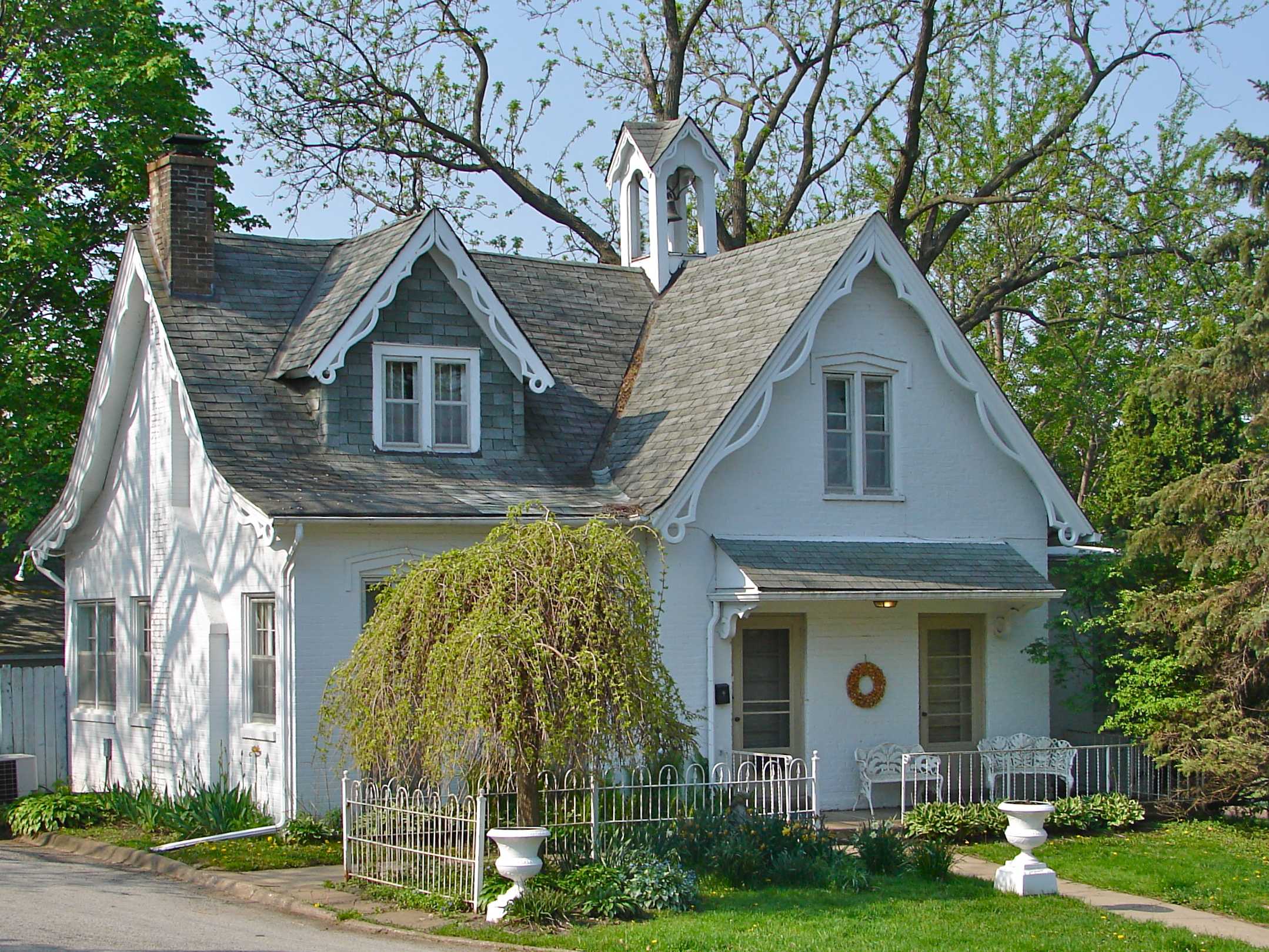 Sexton's House in Chippiannock Cemetery, Rock Island, Rock Island County, Illinois. Cemetery listed on the NRHP since May 6, 1994.2901 Twelfth St., Rock Island. Architect Almerin Hotchkiss patterned his design on the Rural Cemetery style of Mt. Auburn Cemetery in Massachusetts. It contains monuments by Alexander Stirling Calder and Paul de Vigne. The Sexton's House predates the cemetery and is still in use.